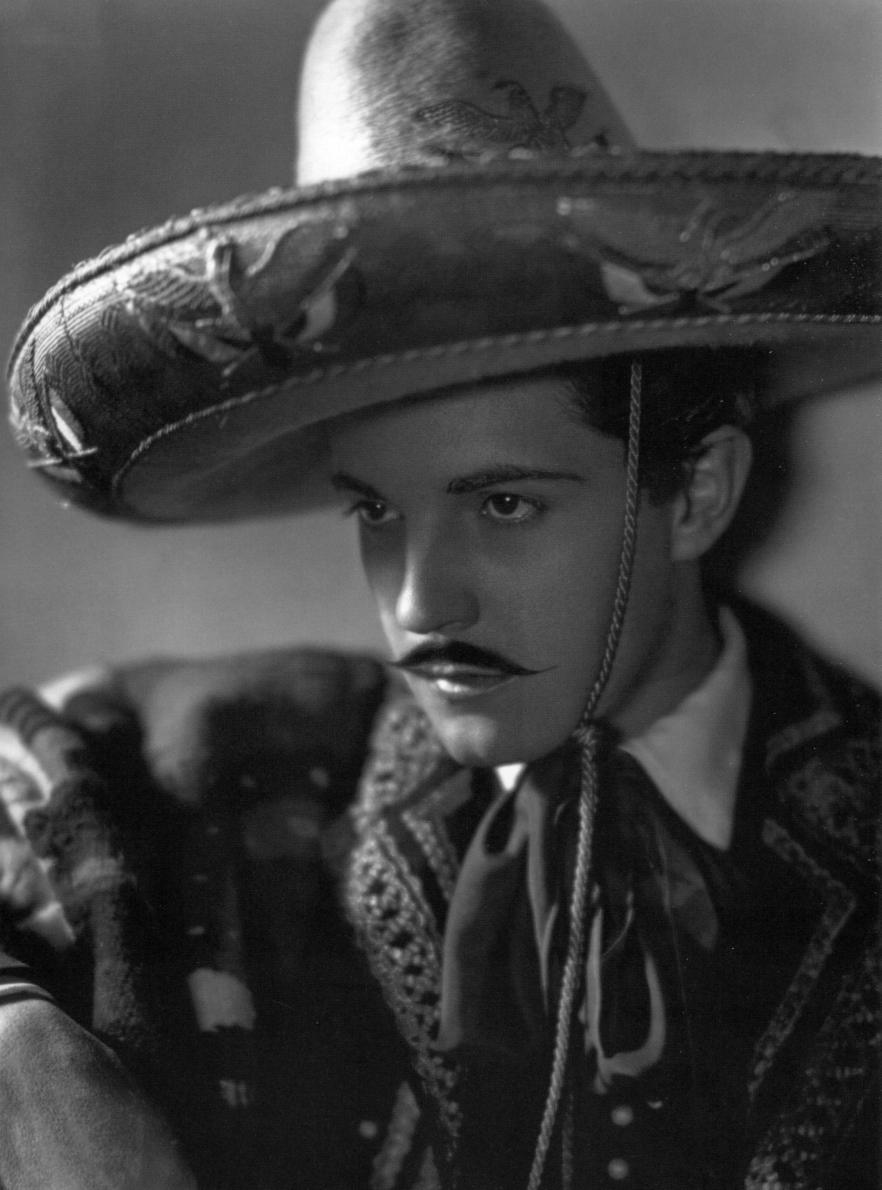 Mexican actor Ramón Novarro